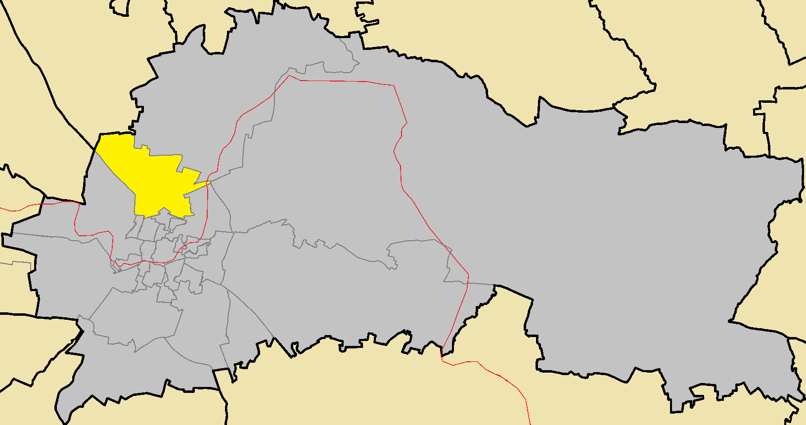 Neapoli in Nicosia Municipality (de jure).